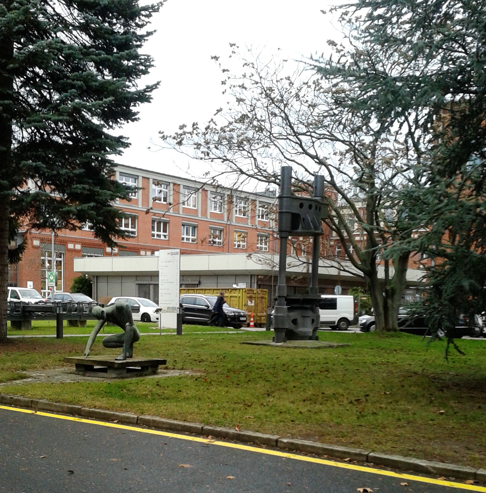 The Federal Institute for Materials Research and Testing in Berlin